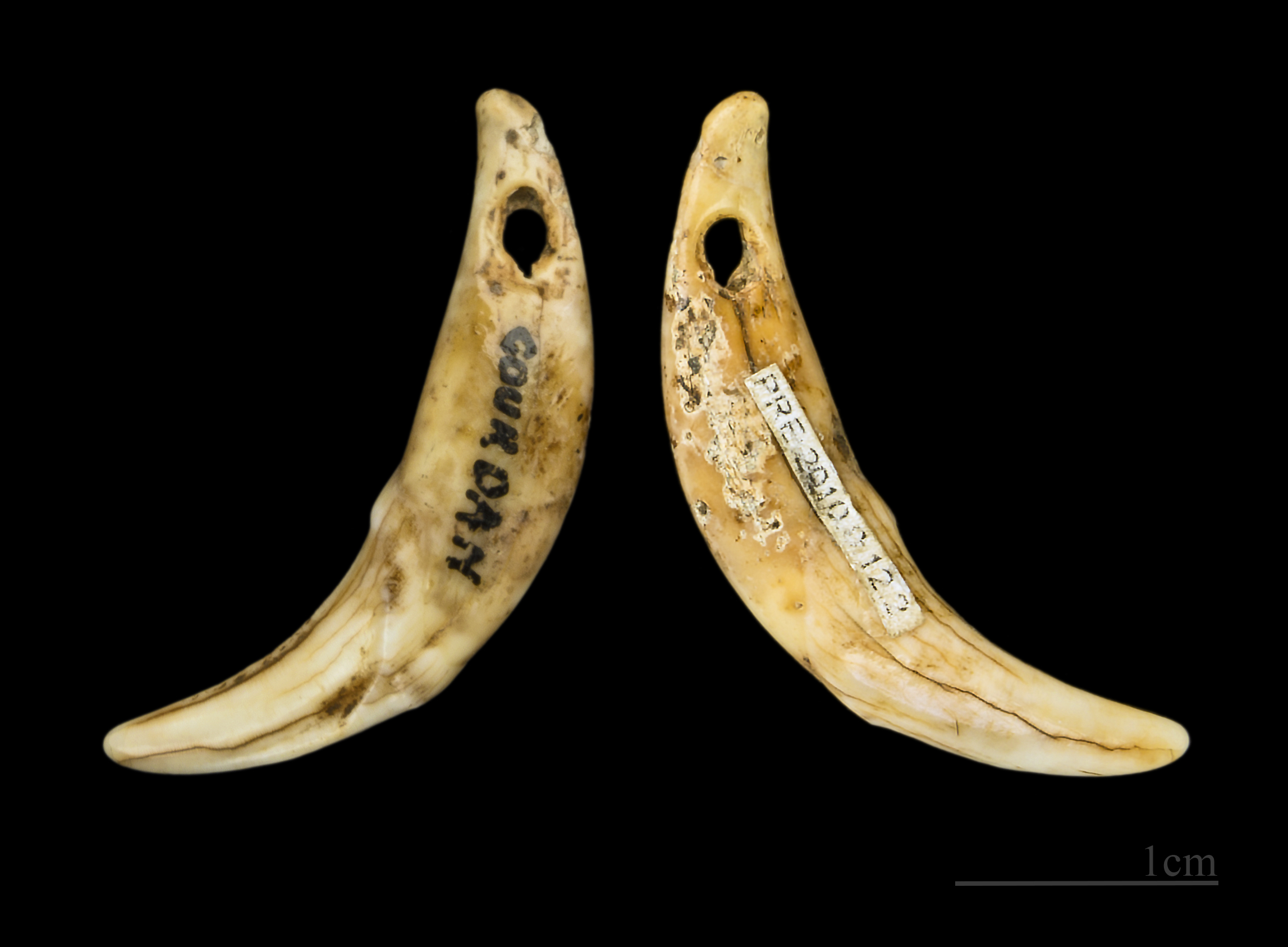 Drilled tooth (Canis lupus) canine tooth used as a necklace - 2 Views of the same object Locality : Gourdan cave says "Elephant Cave", Gourdan–Polignan, Haute-Garonne , France Search and collection: Henri Filhol Stage : Magdalenian Upper Paleolithic (between 17,000 and 10,000 Before the Current Era)